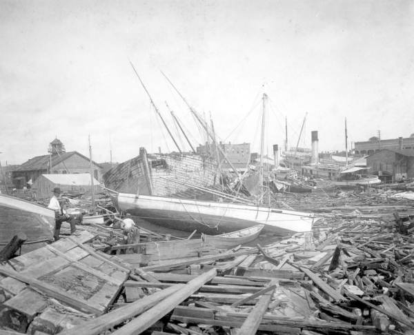 "View of Pensacola Harbor, in the aftermath of the hurricane of 1906 - Pensacola, Florida"